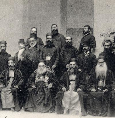 Maronite Patriarch Elias Peter Hoayek and bishops in Rome.